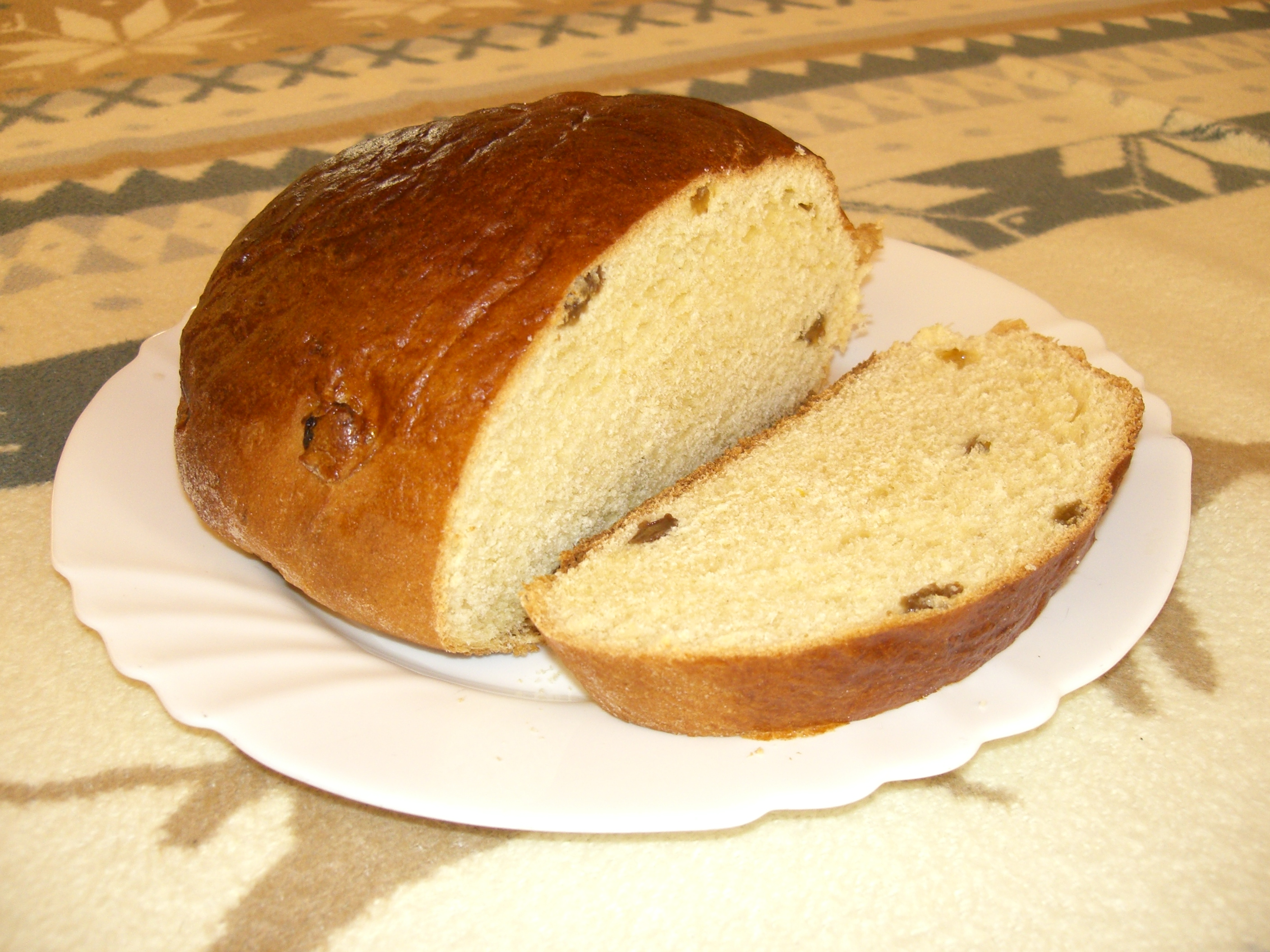 Mazanec - czech sweet bread, Czech Republic.